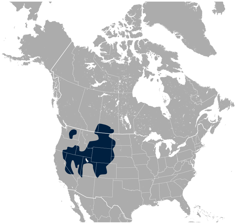 Geographical distribution of the Sage Grouse Centrocercus urophasianus. The map was created using the Generic Mapping Tools, GMT, version 5.1.1.